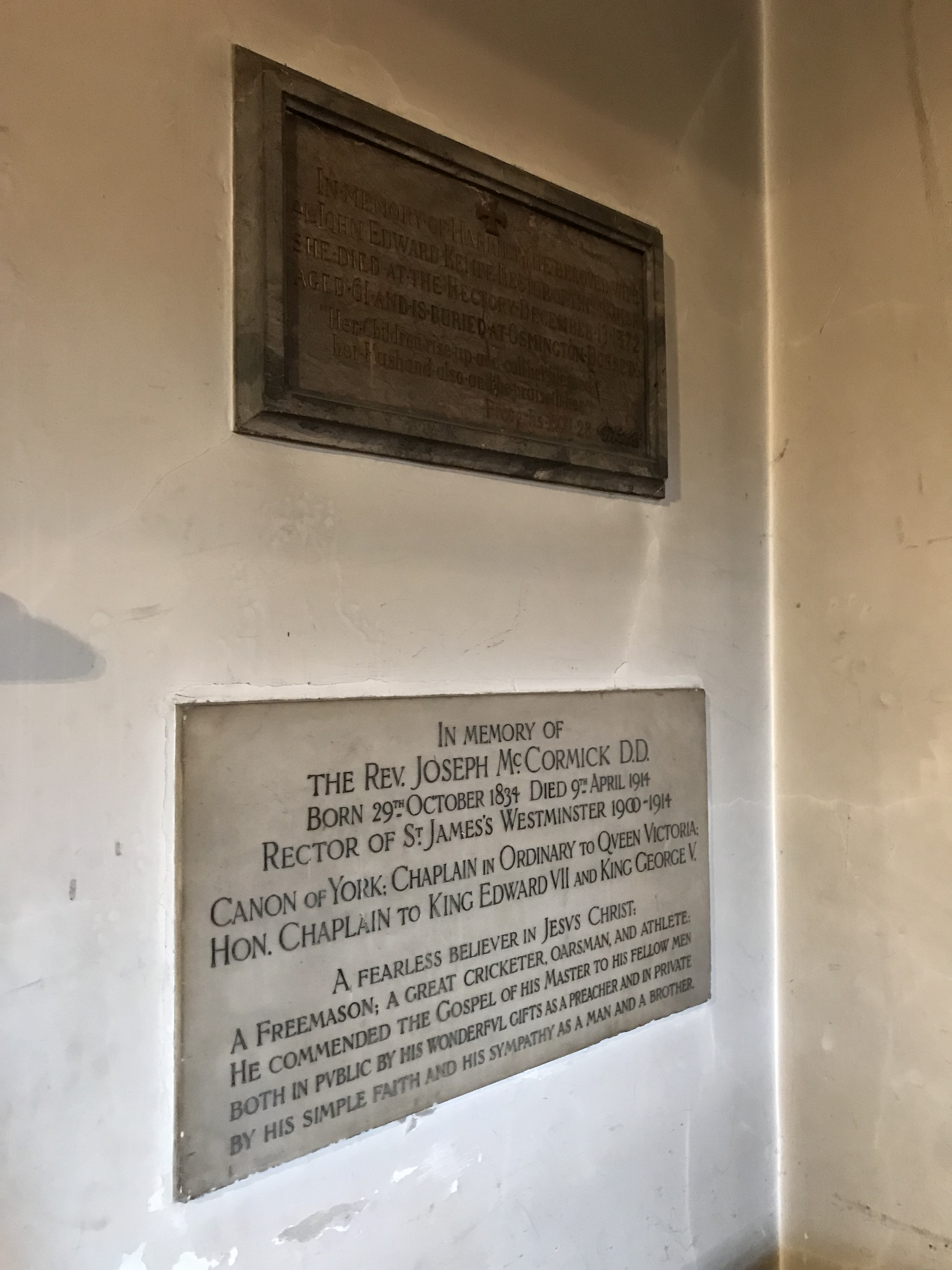 A memorial to Joseph McCormick in St James's Church, Piccadilly.